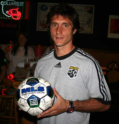 Guillermo Barros Schelotto, player for The Columbus Crew. Shot by Jim Early on Wednesday, May 23, 2007 at the Buffalo Wild Wings Grill Restaurant on Bethel Road In Columbus, Ohio. He was attending the annual "Meet the Crew" event.